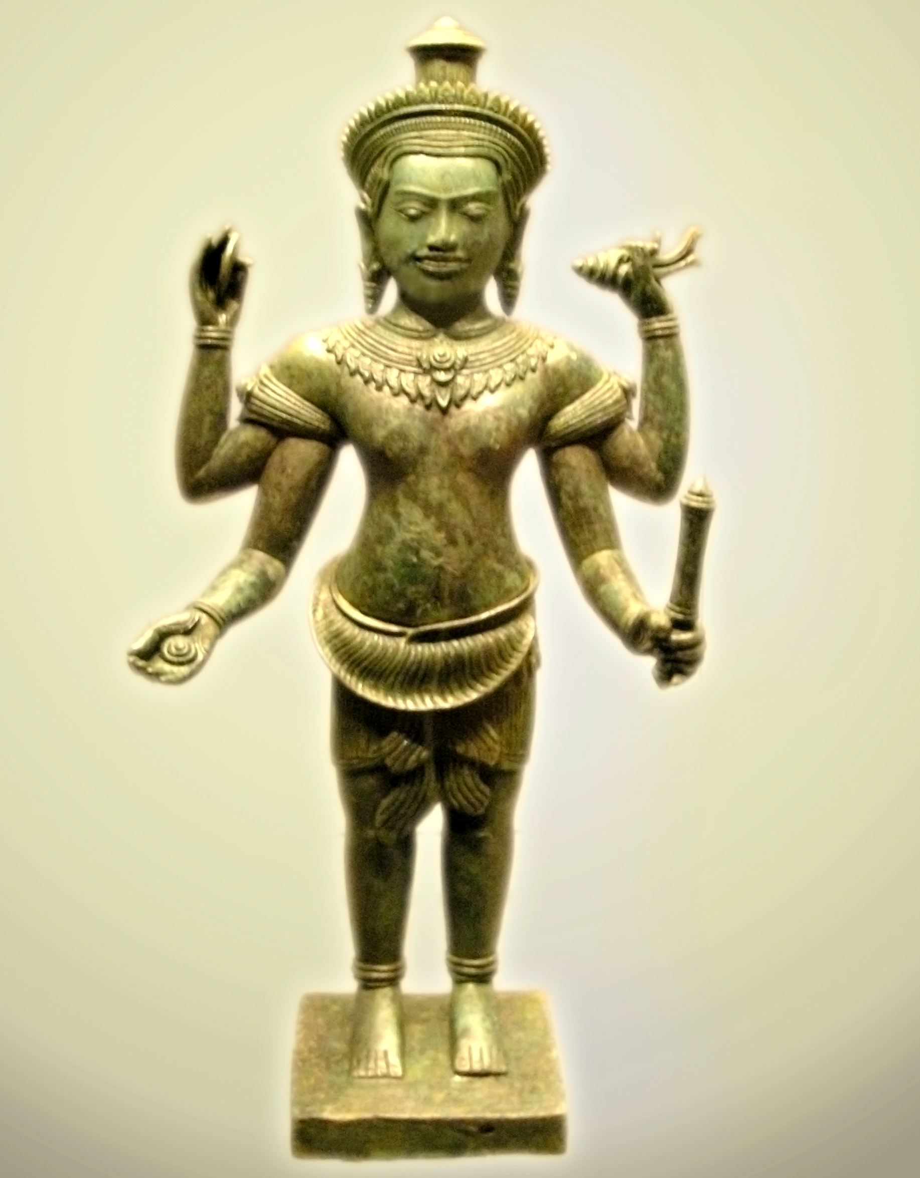 Four-armed Vishnu, Cambodia, 11th/12th century CE, bronze, 42 cm. Donation Paul Czerlitzki, Berlin. Located in the Museum für Indische Kunst, Berlin-Dahlem.